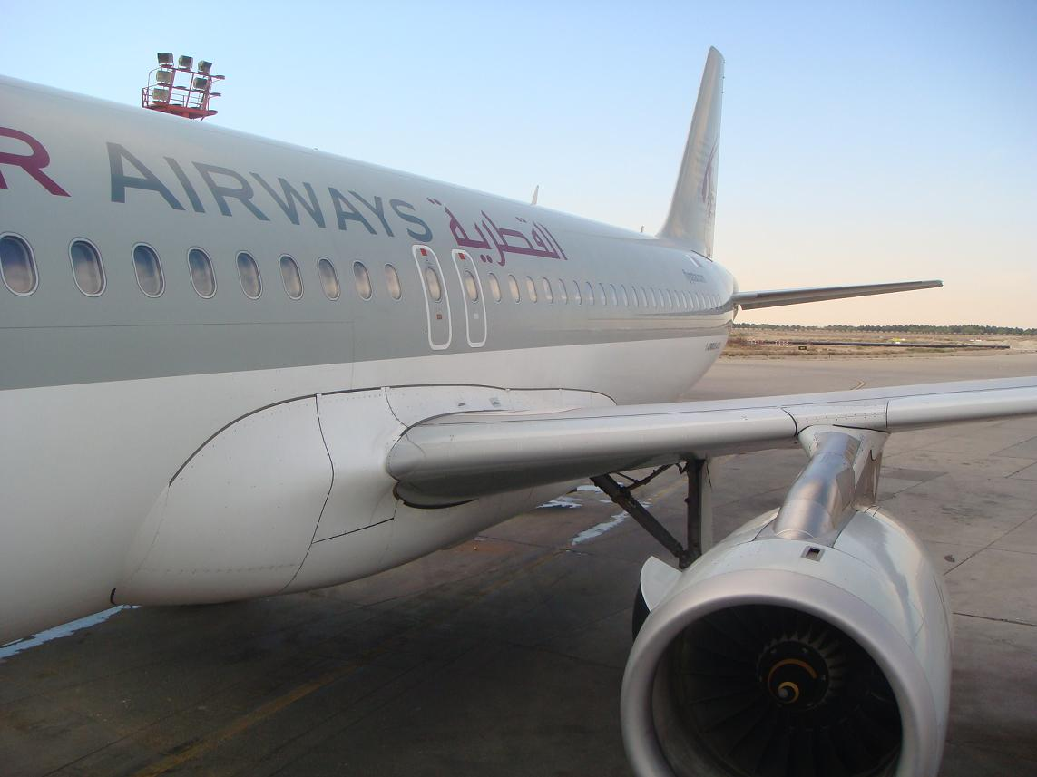 Qatar airways a320 at Kuwait airport